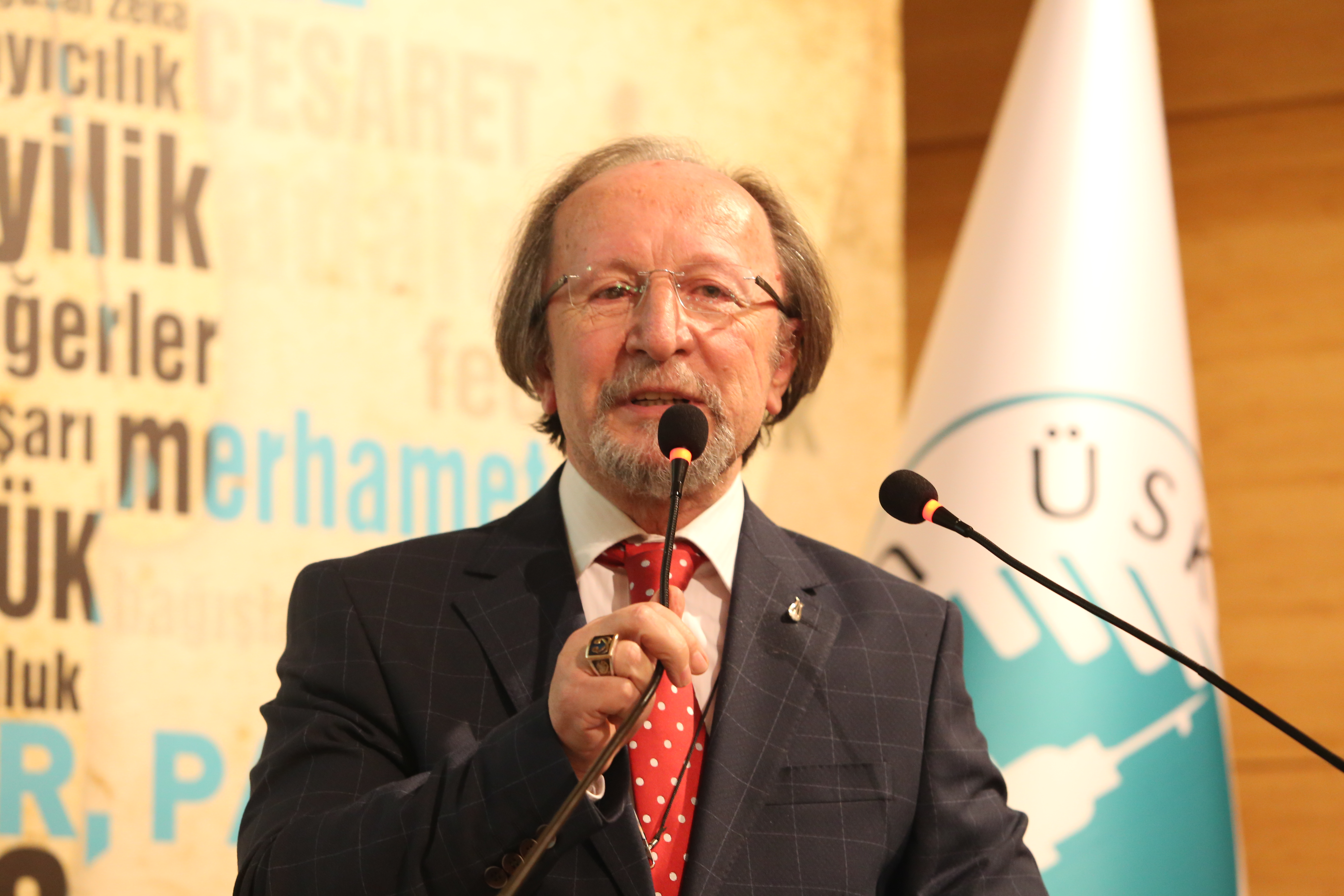 Mehmet Gürsoy receiving Outstanding Humanitarian Values award.